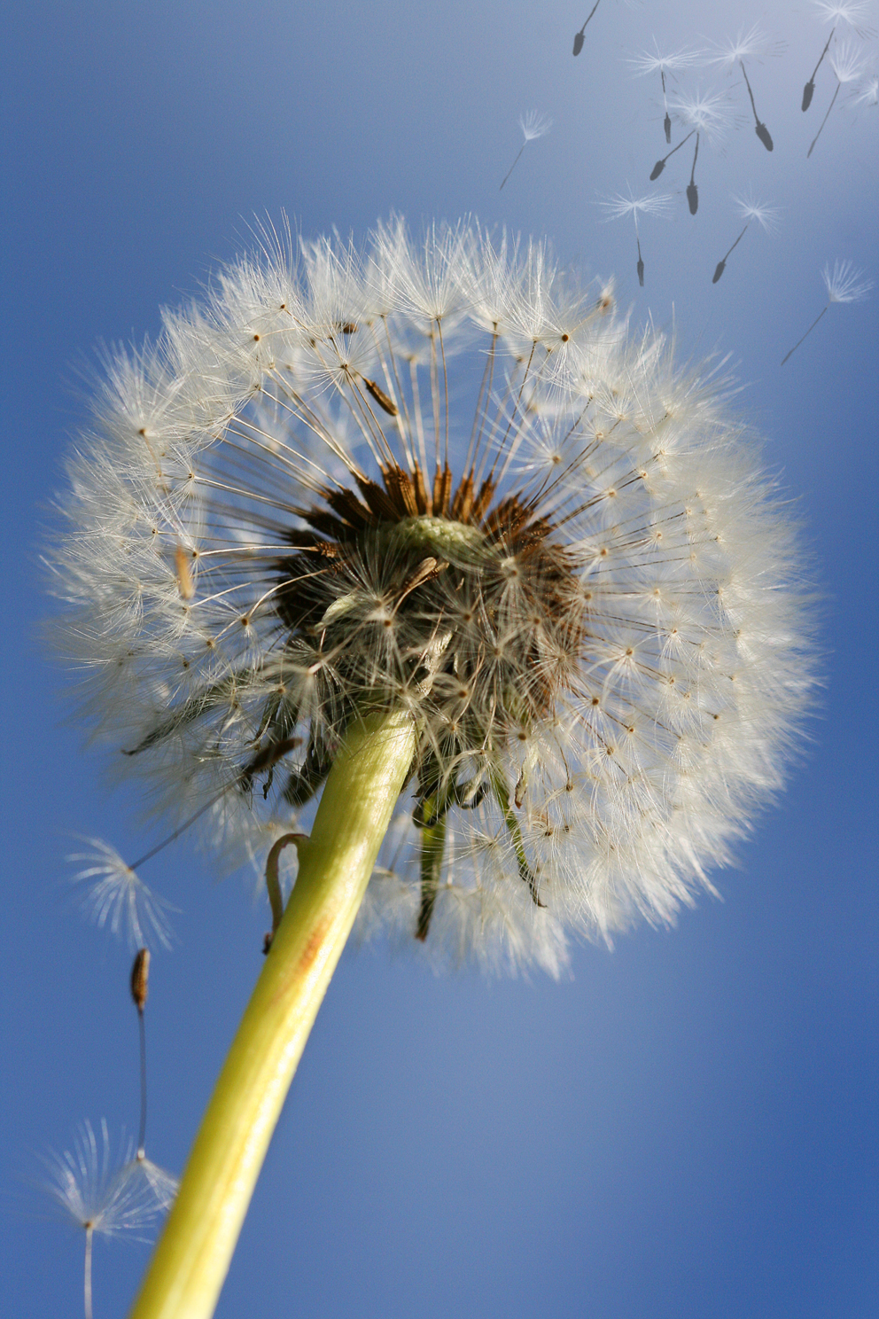 A picture of a dandylion with some photoshop magic using layers and brushes.